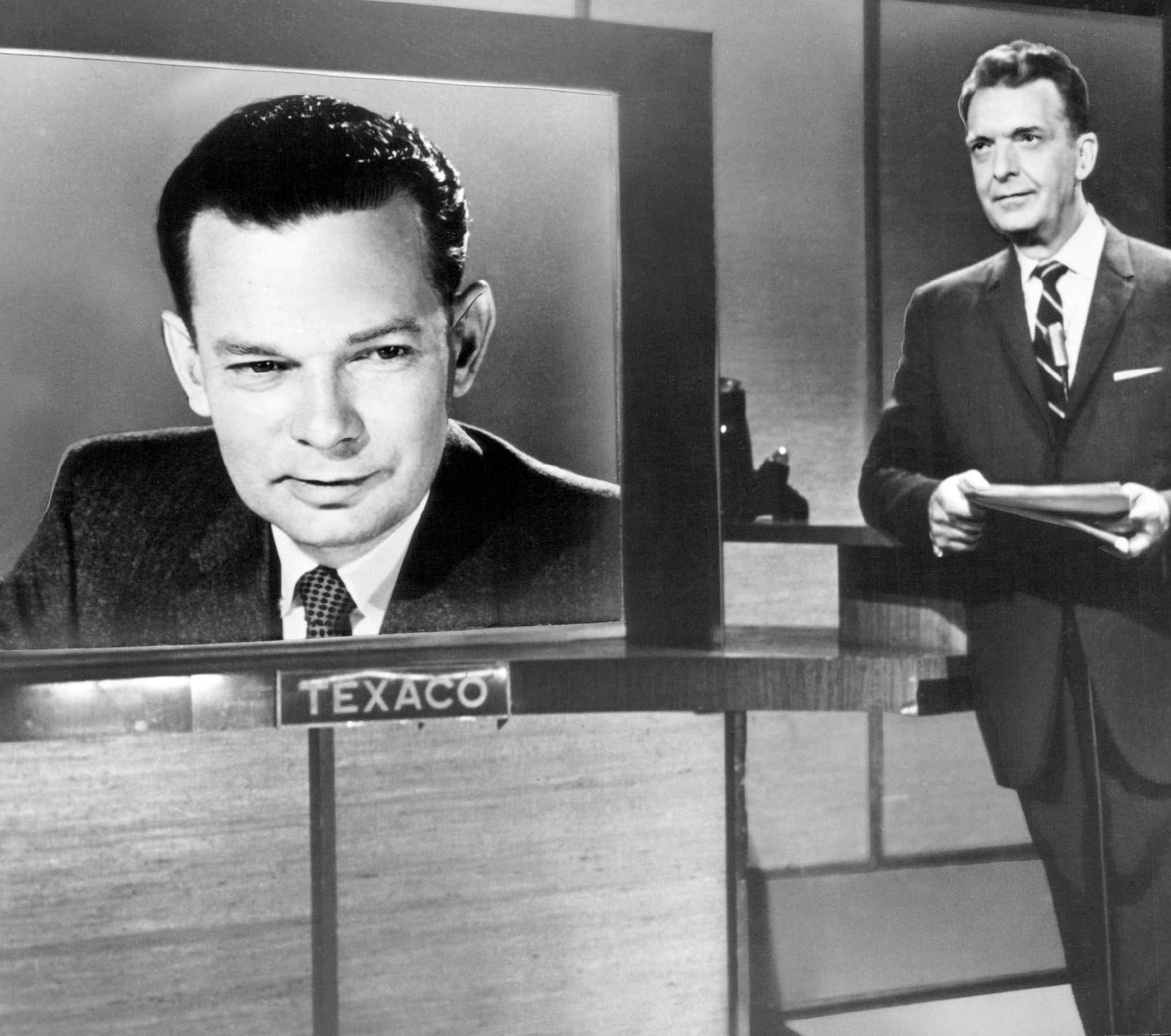 Photo of David Brinkley (on screen) and Chet Huntley from the news program The Huntley-Brinkley Report. Huntley was based in New York, while Brinkley was based in Washington. They shared the duties of the NBC Television Network evening news program from 1956 to 1970.